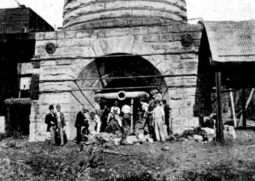 The photograph shows the base of the blast furnace at the Fitzroy Iron Works during the time that the works were under the control of the Lambert Brothers (1896). The photograph shows the operation to clean out the old furnace.